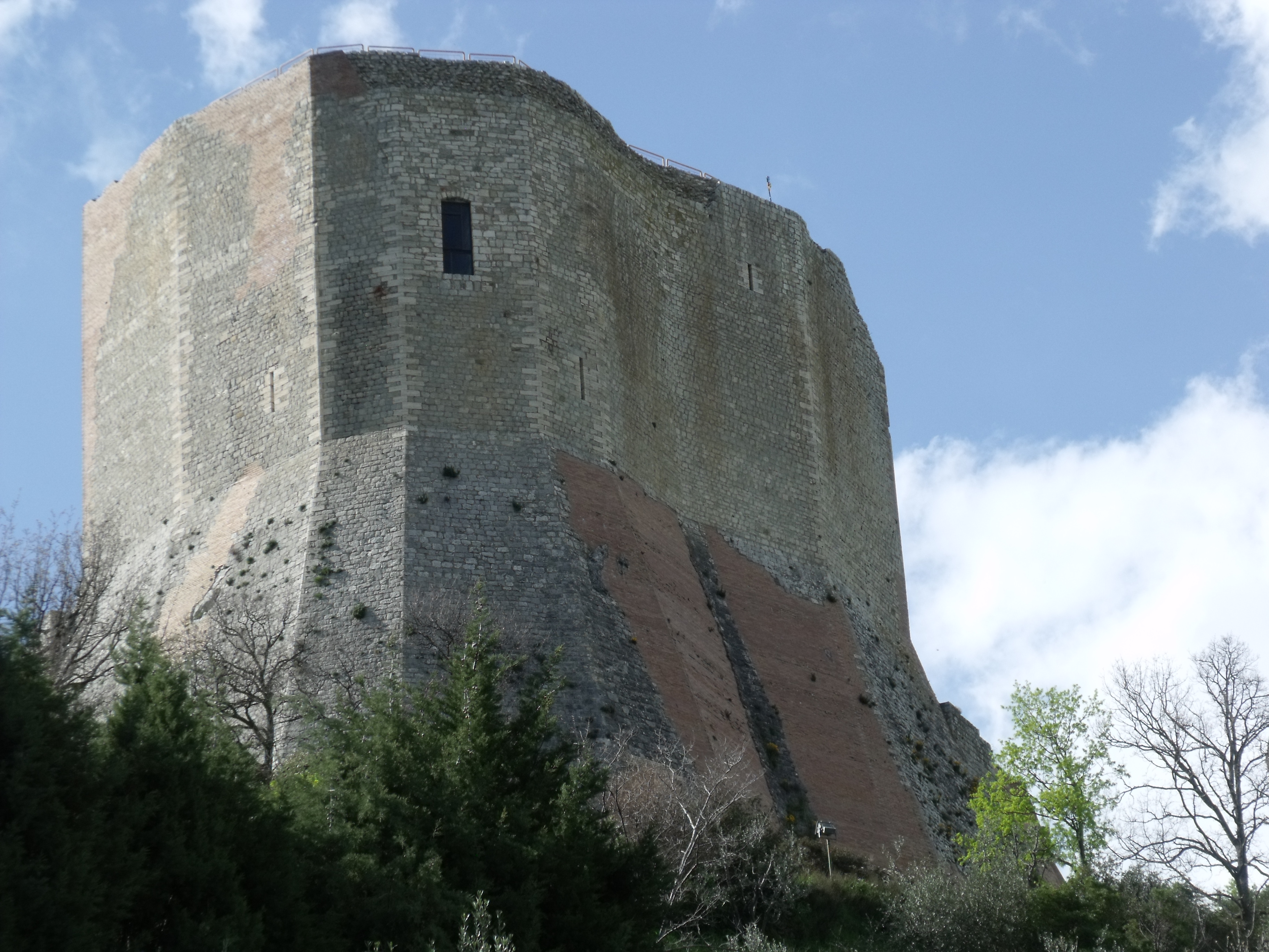 The Castle Rocca Tintinnano (also called Tentennano or Tintennano) in Rocca d’Orcia, Castiglione d’Orcia, Val d’Orcia, Province of Siena, Tuscany, Italy